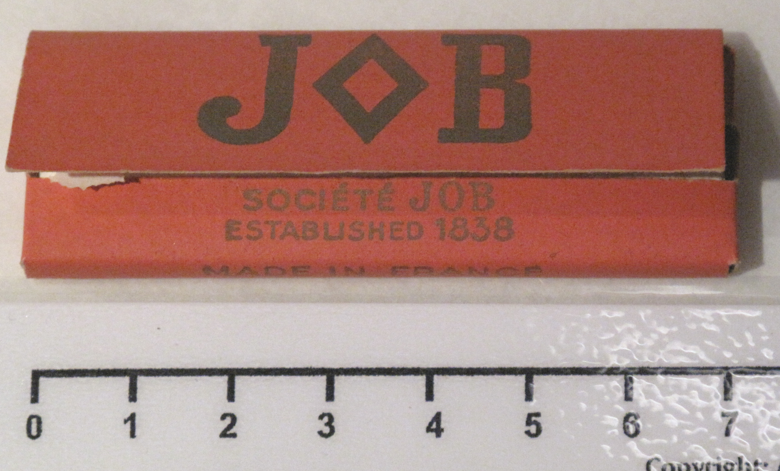 "cigarette papers, locality- France. six packets of cigarette papers, oblong orange-brown card with folding top withh trademark JOB, containing white cigarette papers.